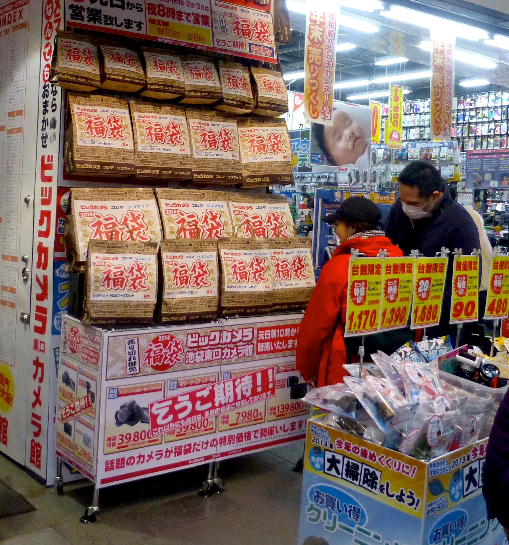 Lucky bags (fukubukuro) in Ikebukuro